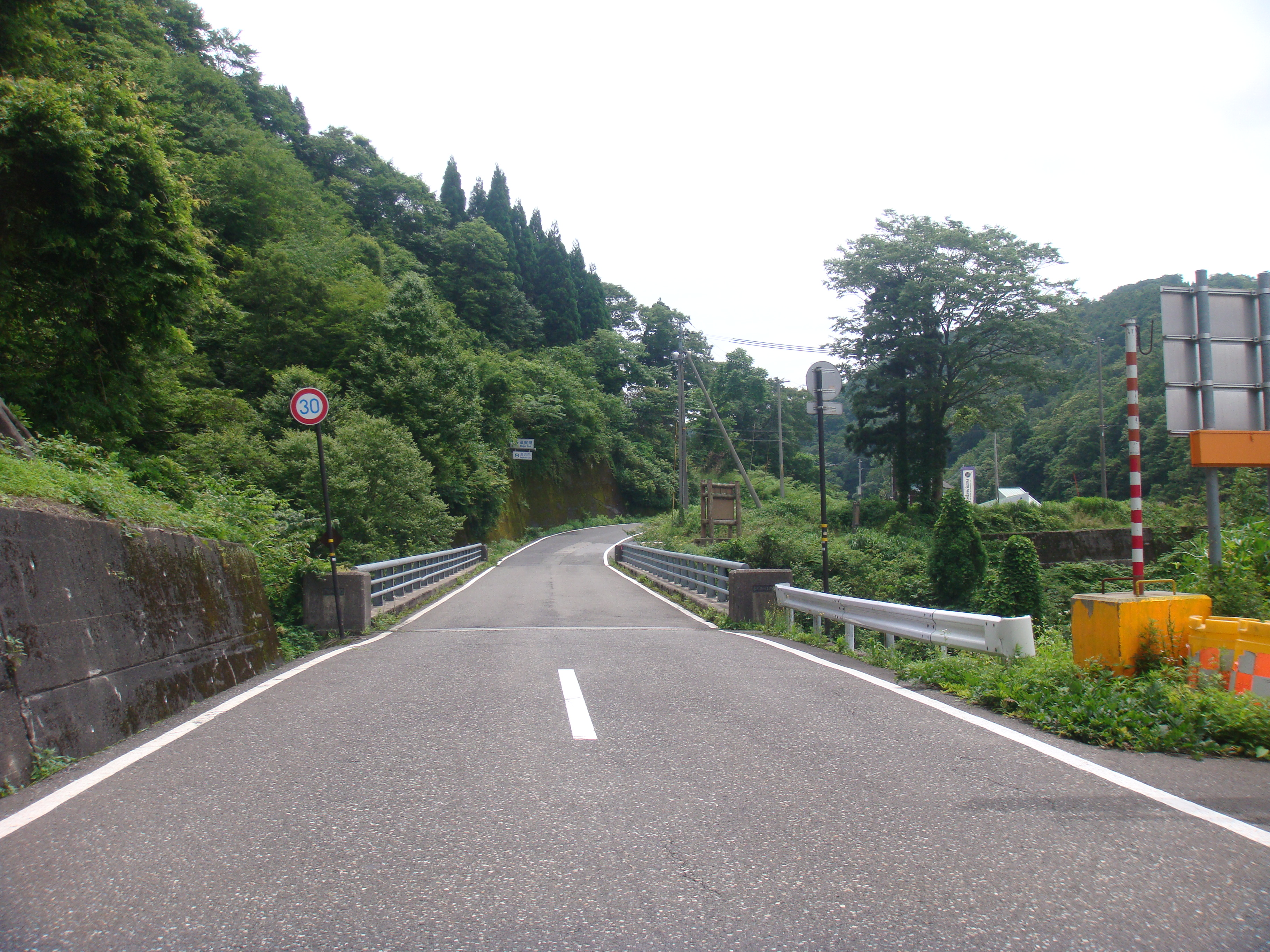 Tochinoki Pass Place - Itadori,Minami-echizen Town,Nanjo County,Fukui Prefecture,Japan Date - July 16, 2010 Format - JPEG, 3648x2736pixel, 24bit colors Photographer - NALA Wiki (talk)